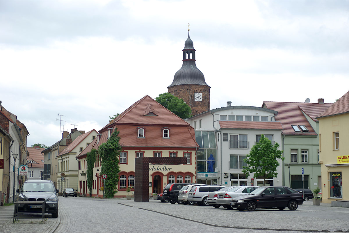 Market of Vetschau, Brandenburg, Germany